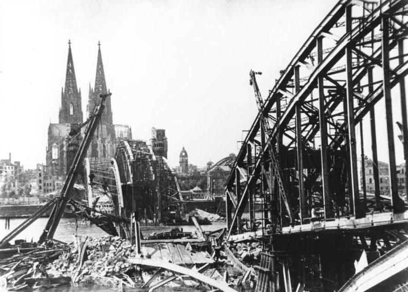 (summary translation): Cologne, Hohenzollern Bridge after bombing attack with view of Cologne Cathedral in background Cathedral